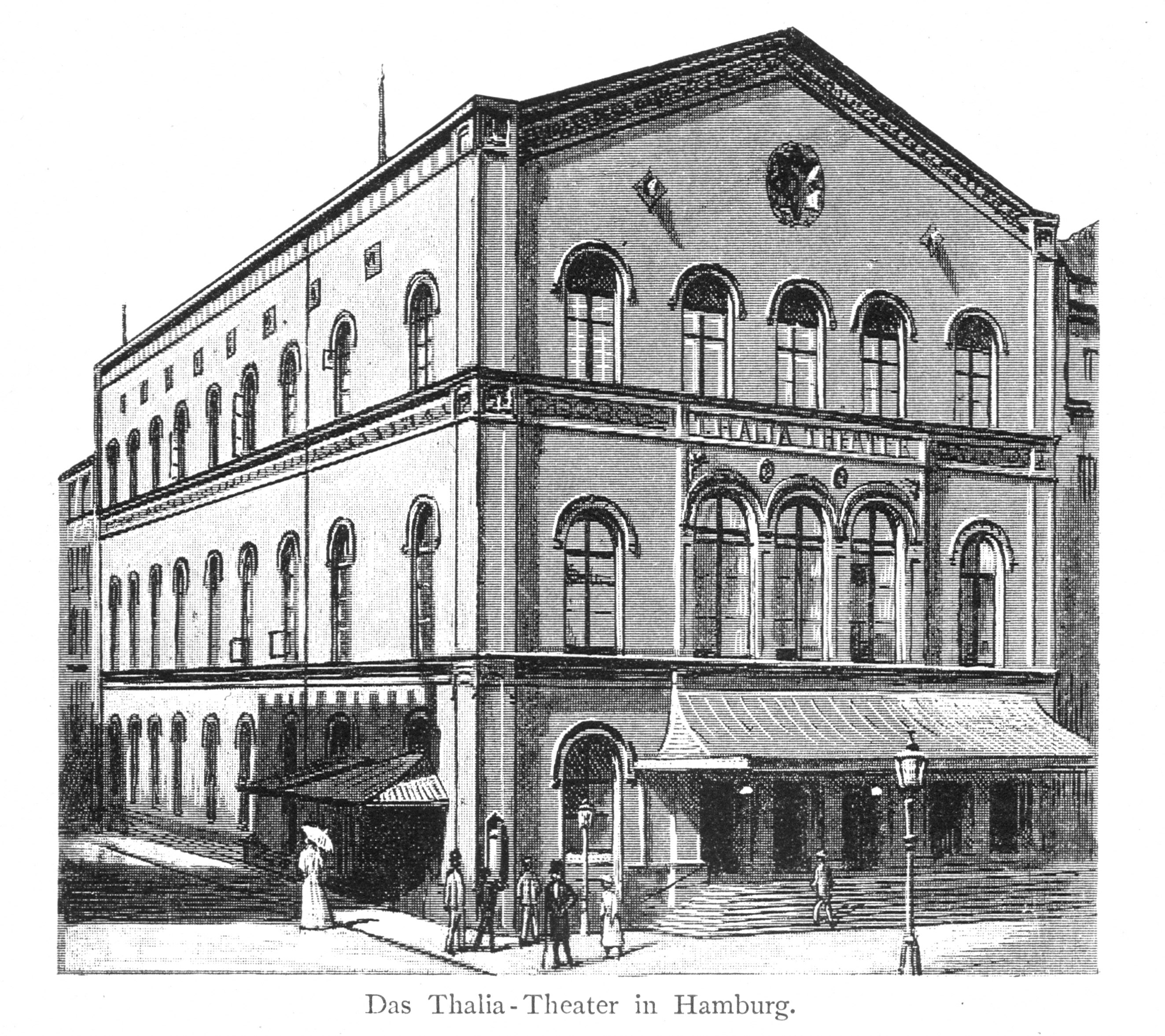 Hamburg, Thalia Theatre, a. 1890 (Architects Franz Georg Stammann und Auguste de Meuron)